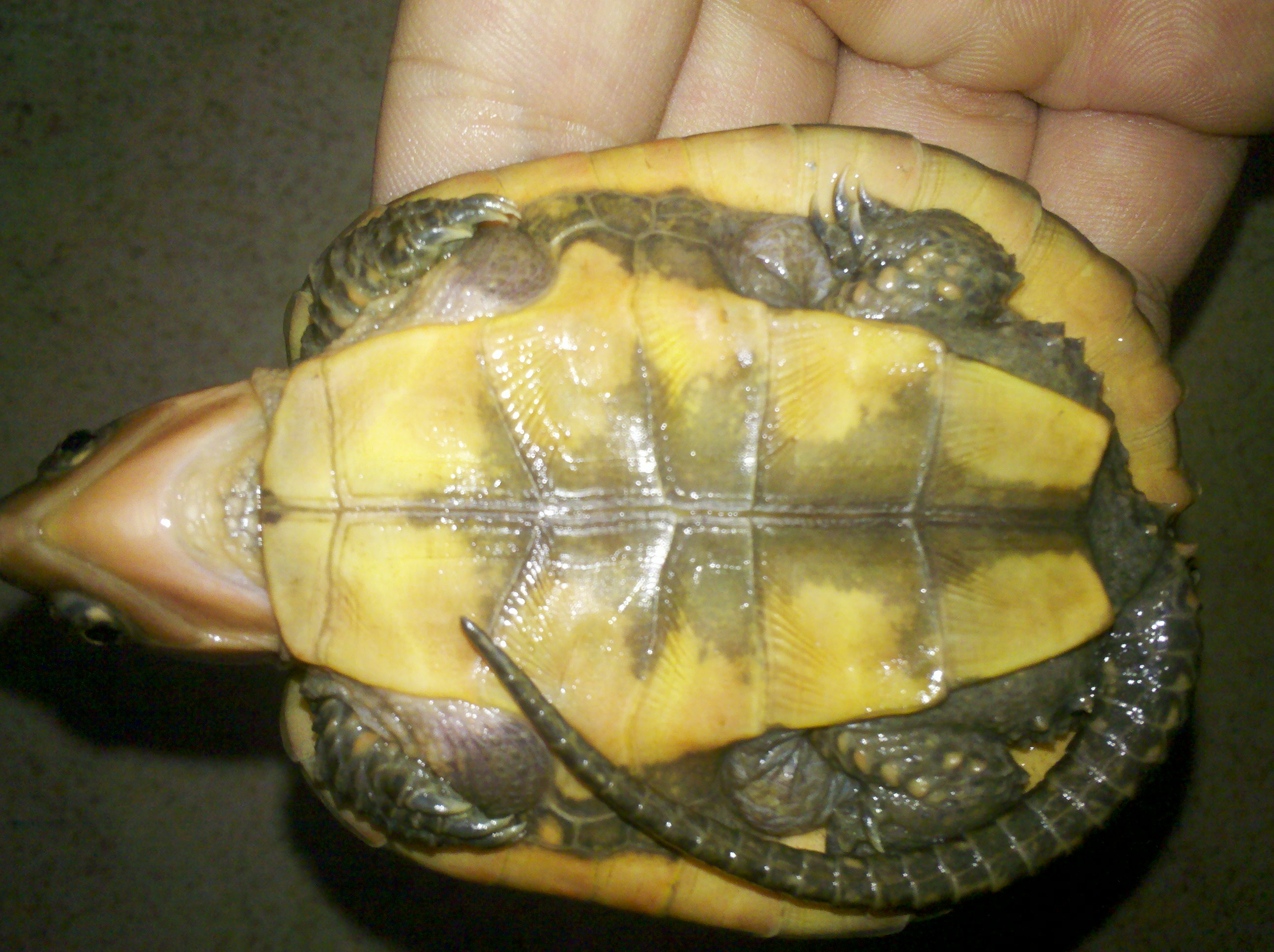 幼体6厘米腹甲